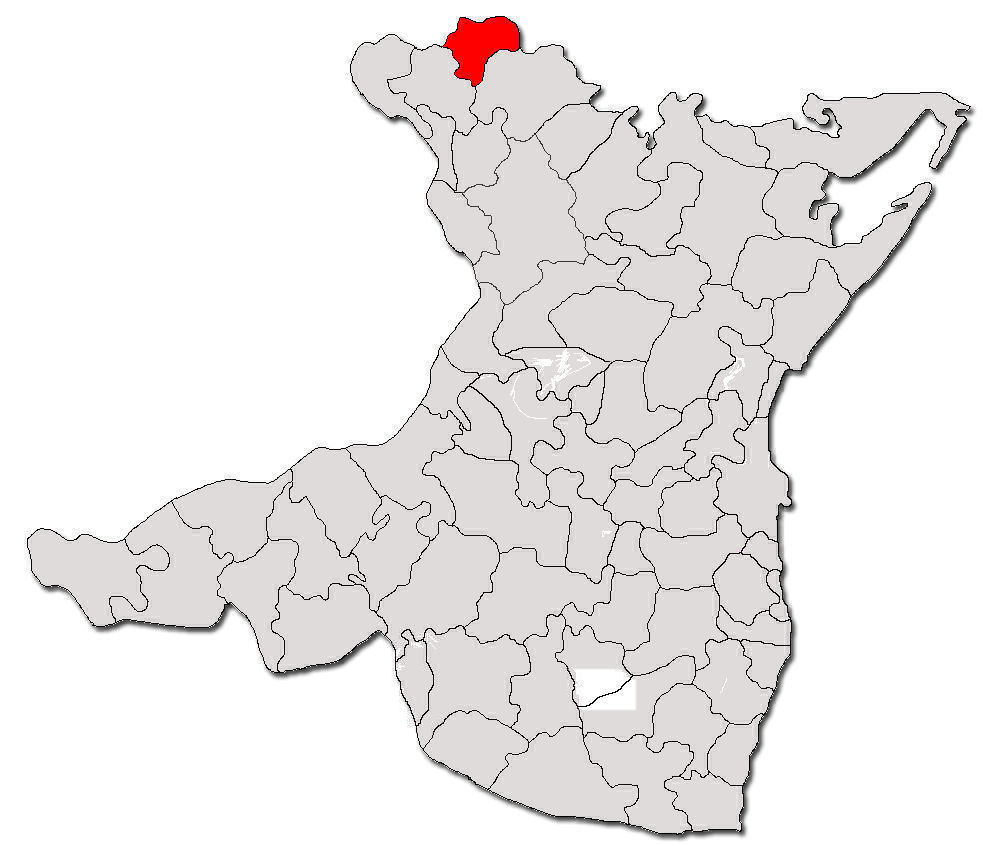 Contour map of Garliciu commune